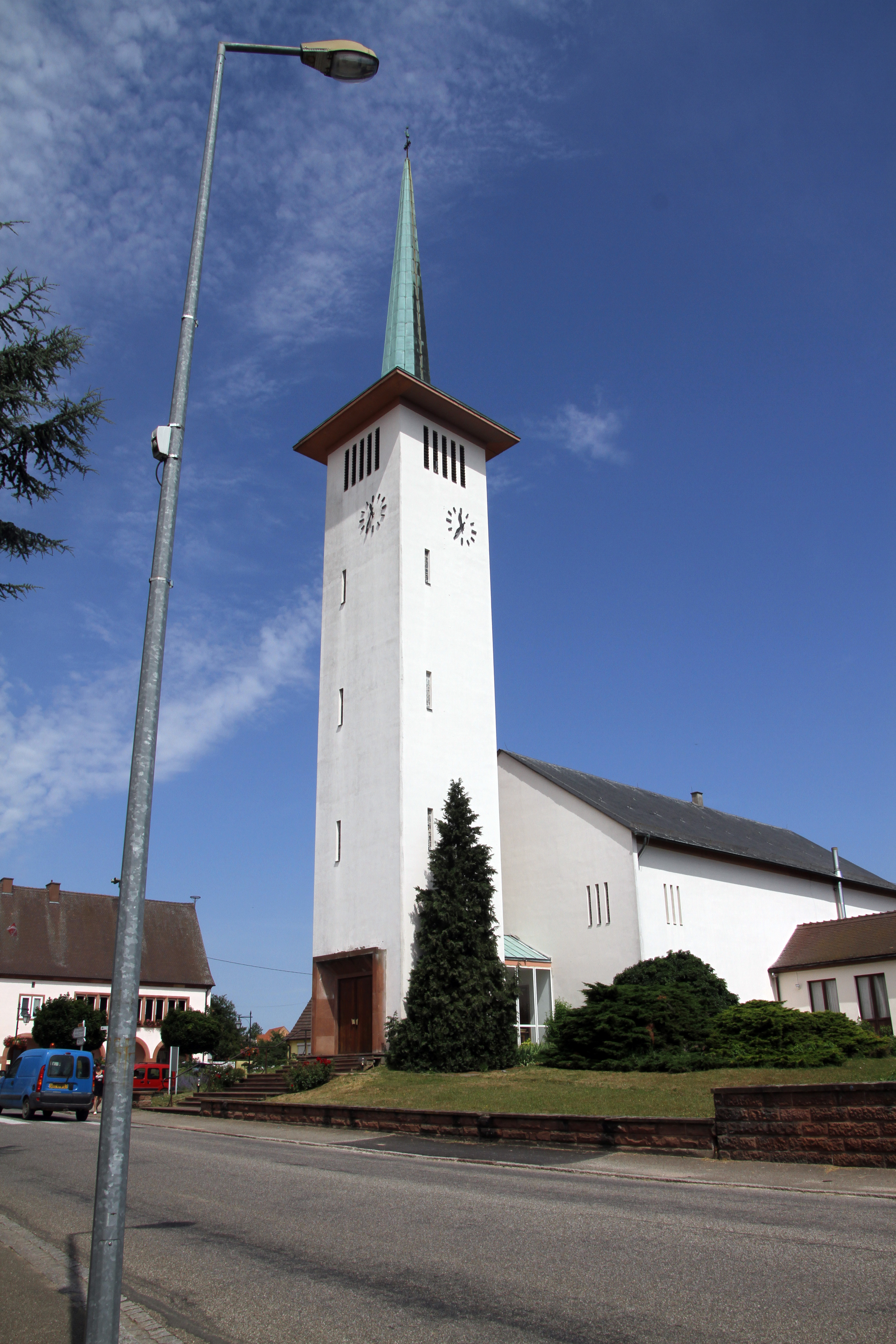 Lutheran church in Rittershoffen.